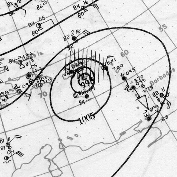 Surface analysis of the 1928 Okeechobee hurricane nearing Puerto Rico as a Category 5 hurricane.